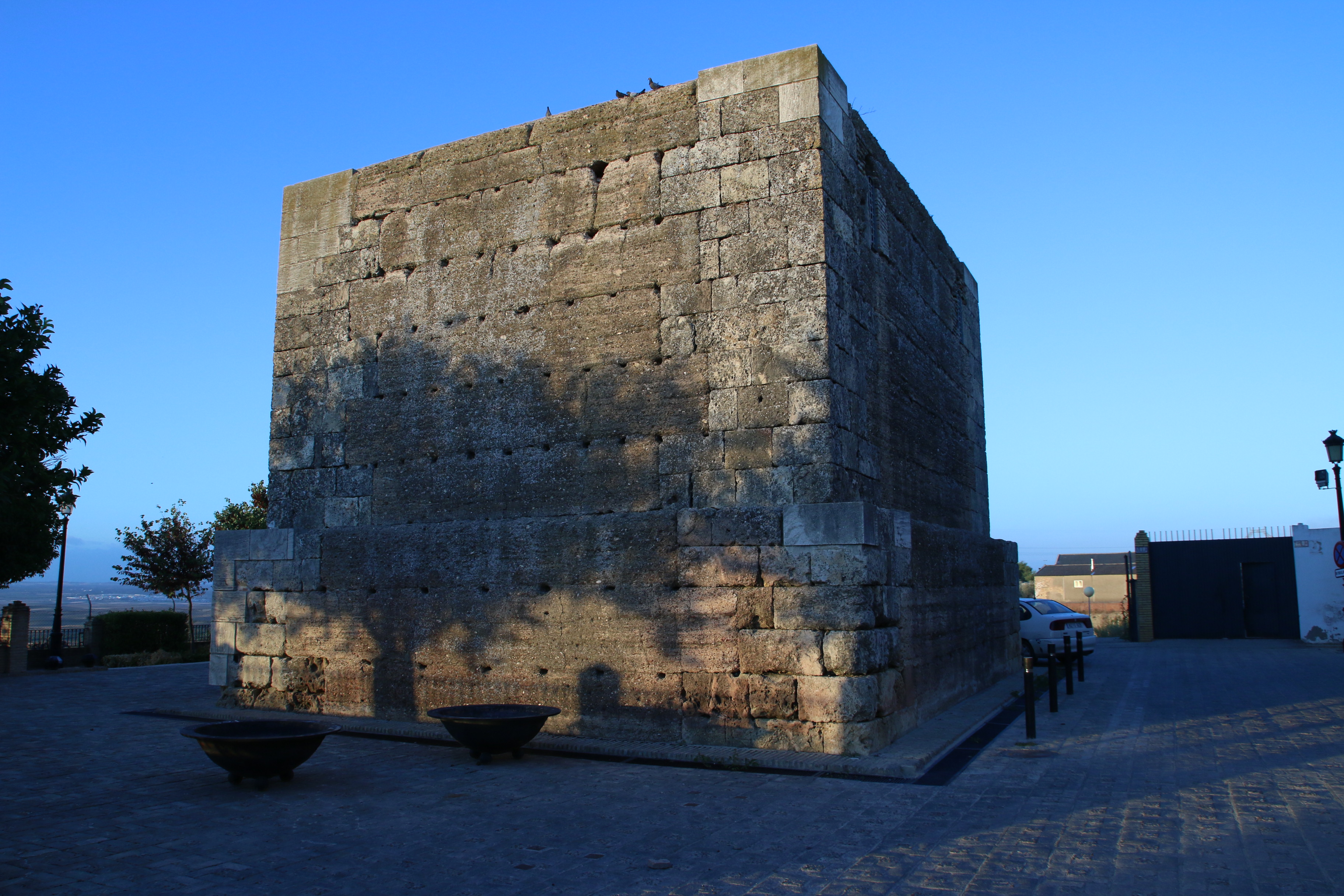 Albaida del Aljarafe. Torre de D. Fadrique o Torre Mocha.